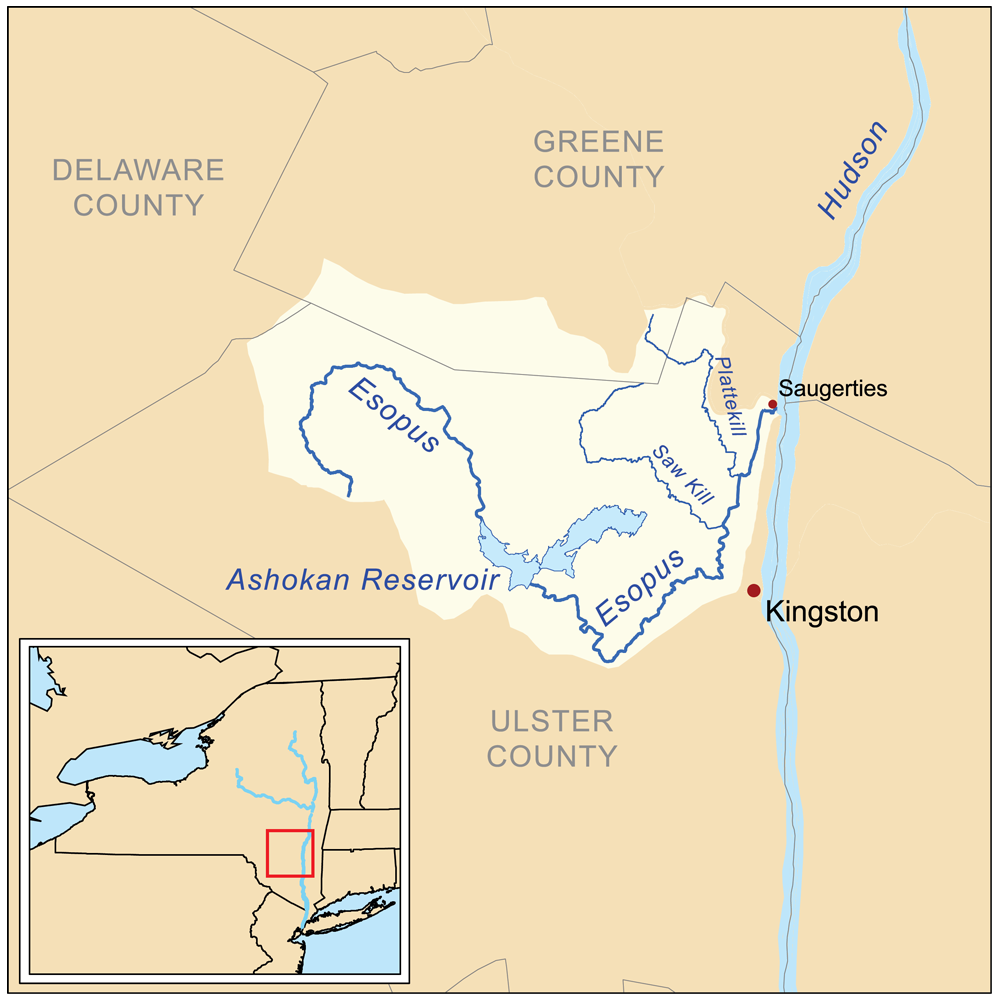 Map of the Esopus Creek drainage basin in Ulster County, New York United States